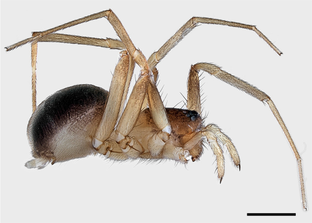 Acanthinozodium crateriferum. Paratype female, lateral view. Scale bar = 1 mm.